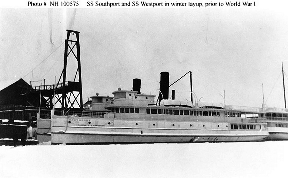 Southport in winter layup, prior to World War I, with her sister ship, SS Westport tied up on her inboard side. (Westport (ID 2362), was renamed Adrian in 19 November 1918) U.S. Navy Photo NH 100575